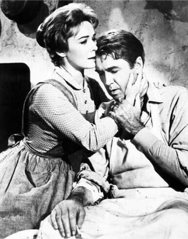 Vera Miles & James Stewart in American western film The Man Who Shot Liberty Valance (1962). See also film still. No copyright notice.